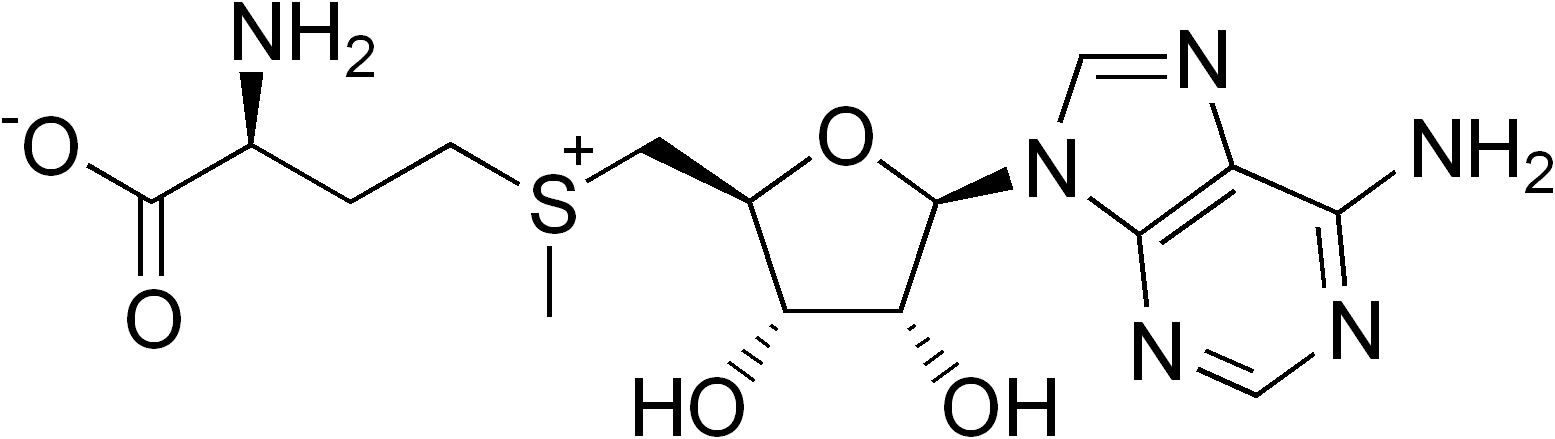 chemical structure of S-Adenosyl methionine (S-Adenosylmethionine, S-Adenosyl-L-methionine, SAMe, SAN-e, SAM)